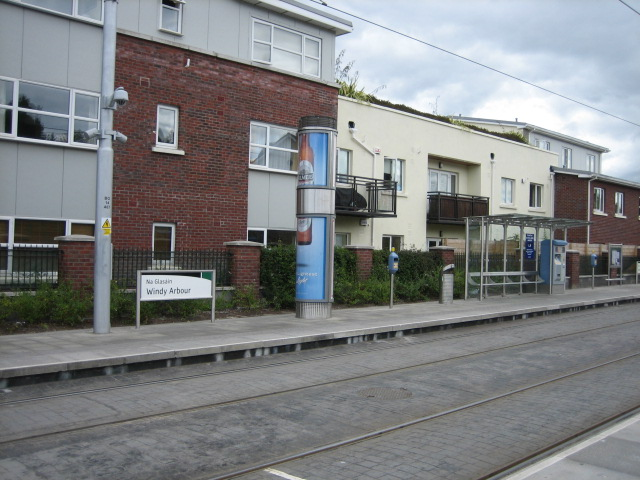 Windy Arbour Luas Station. The housing was probably built after the closure of the former railway line in 1959.